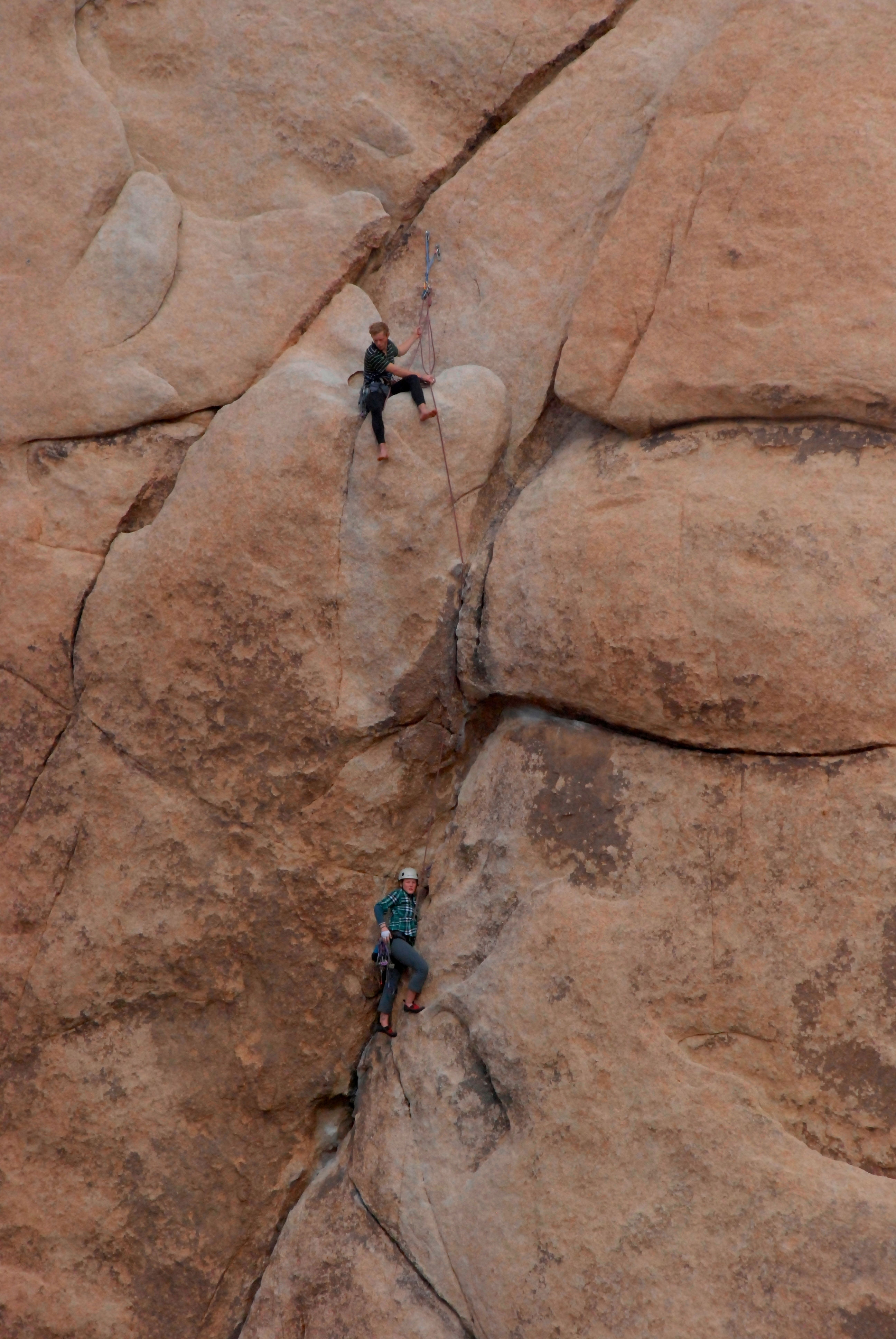 Joshua Tree National Park: Climbing Illusion Dweller 5.10b route on The Sentinel Rock at The Real Hidden Valey.